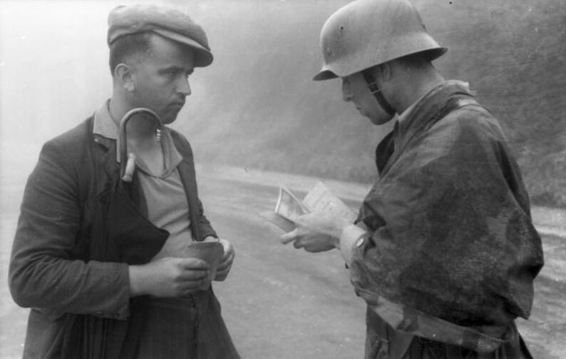 Information added by Wikimedia users.*